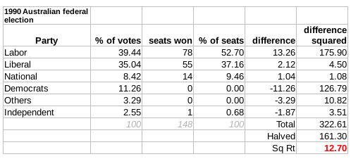 Gallagher Index, 1990 Australian Federal Election